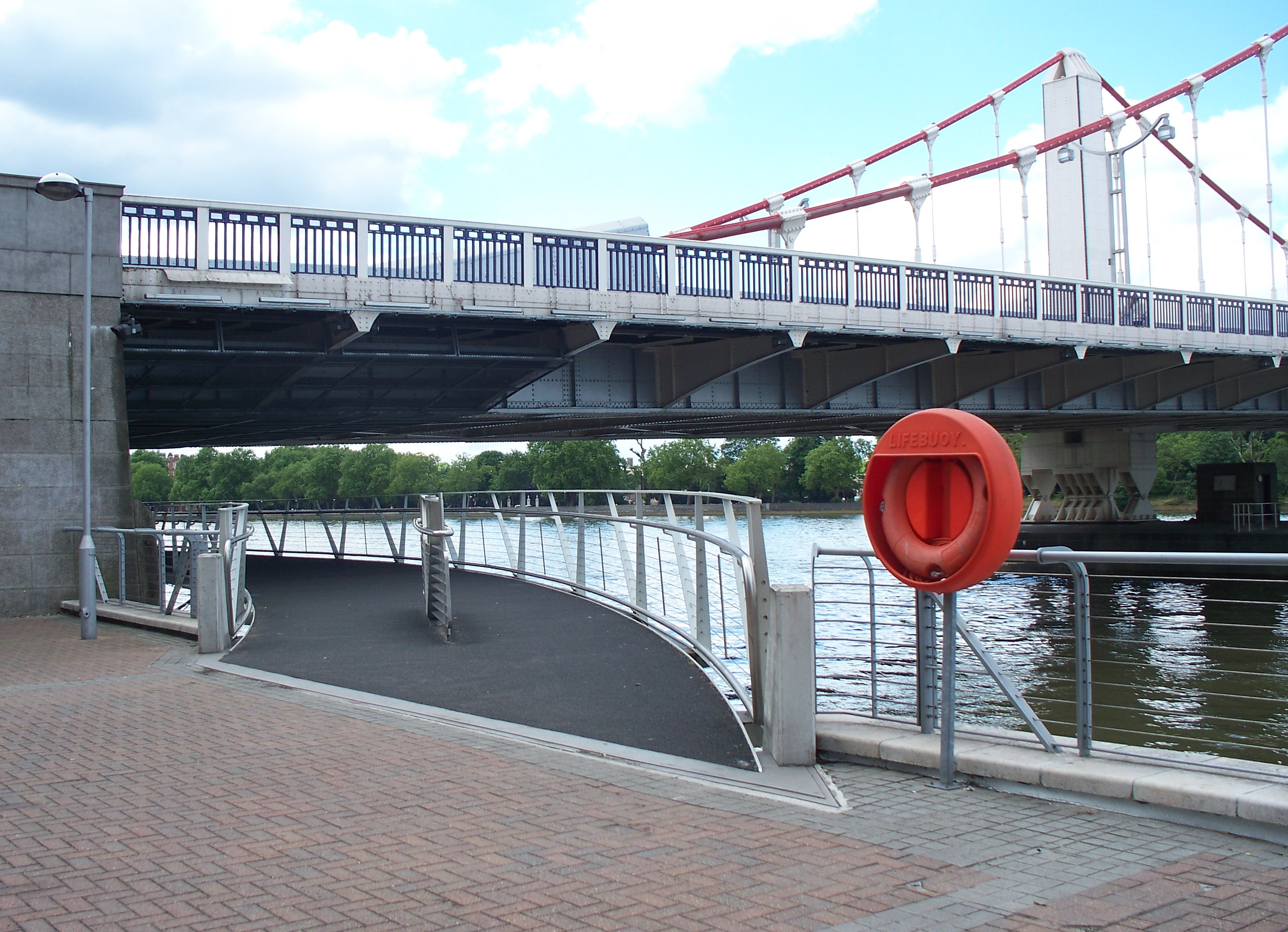 Battersea Footbridge beneath Chelsea Bridge, London. Photograph taken in a public location in the UK of a building on permanent public display, and exempt from copyright under Section 62 of the Copyright Designs & Patents Act 1988 ("it is not an infringement of copyright to film, photograph, broadcast or make a graphic image of a building, sculpture, models for buildings or work of artistic craftsmanship if that work is permanently situated in a public place or in premises open to the public")